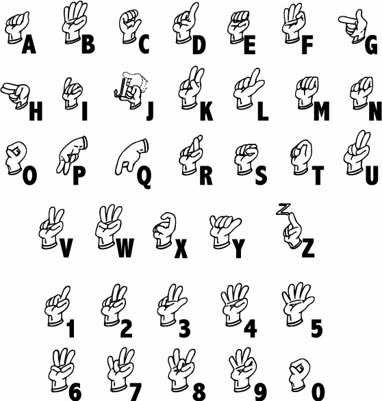 Filipino Sign Language with Alpha-numeric Symbols